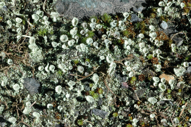 Picture taken in Commanster, Belgian High Ardennes . Species: Cladonia deformis